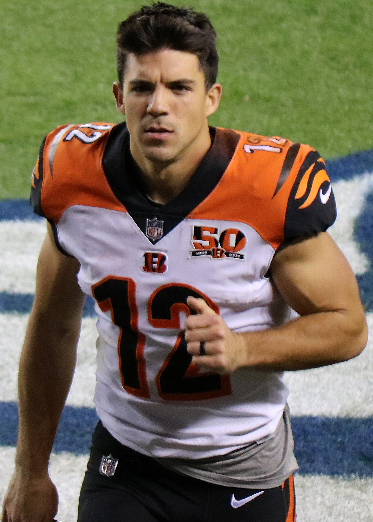 Alex Erickson, a National Football League player.